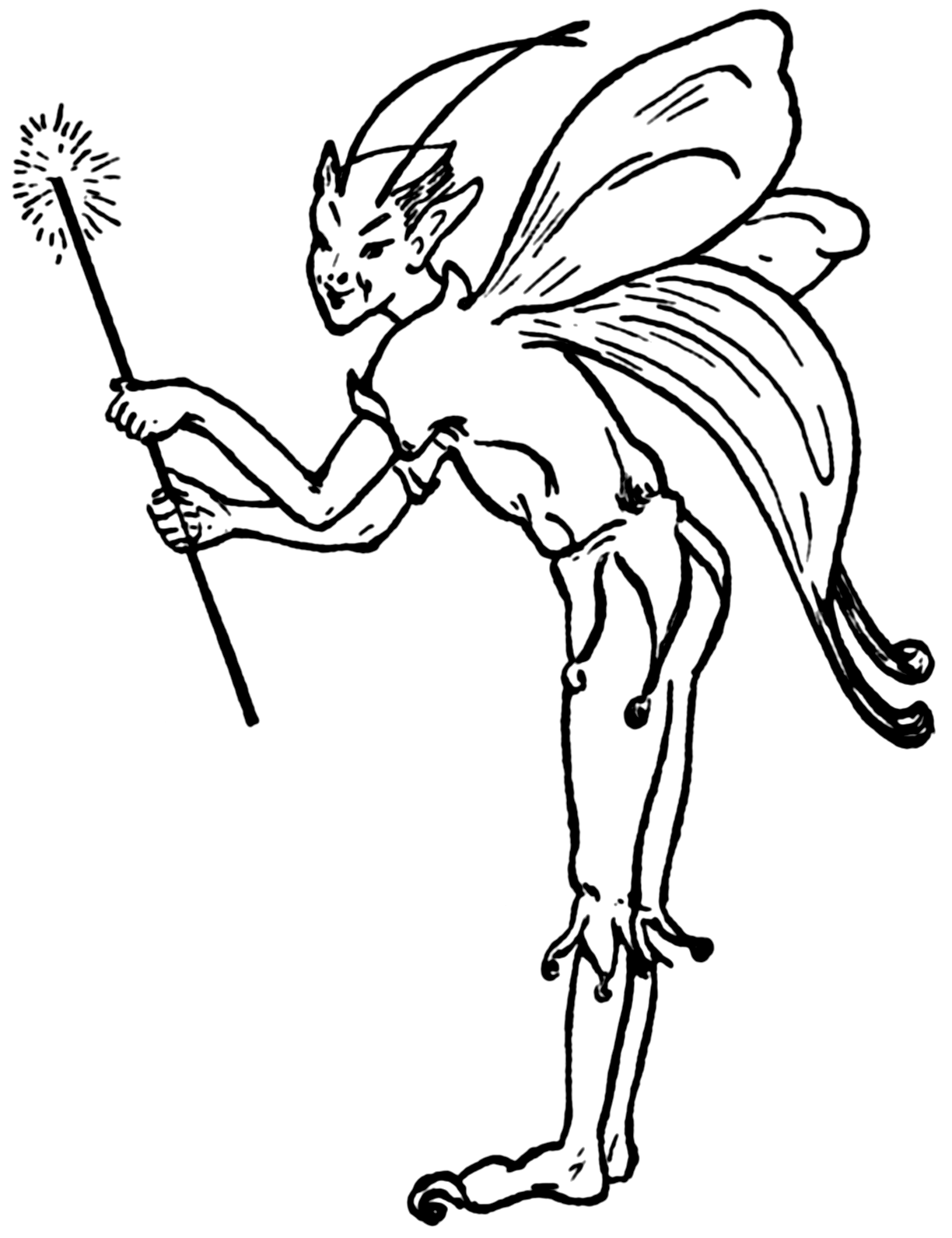 Line art drawing of Puck.